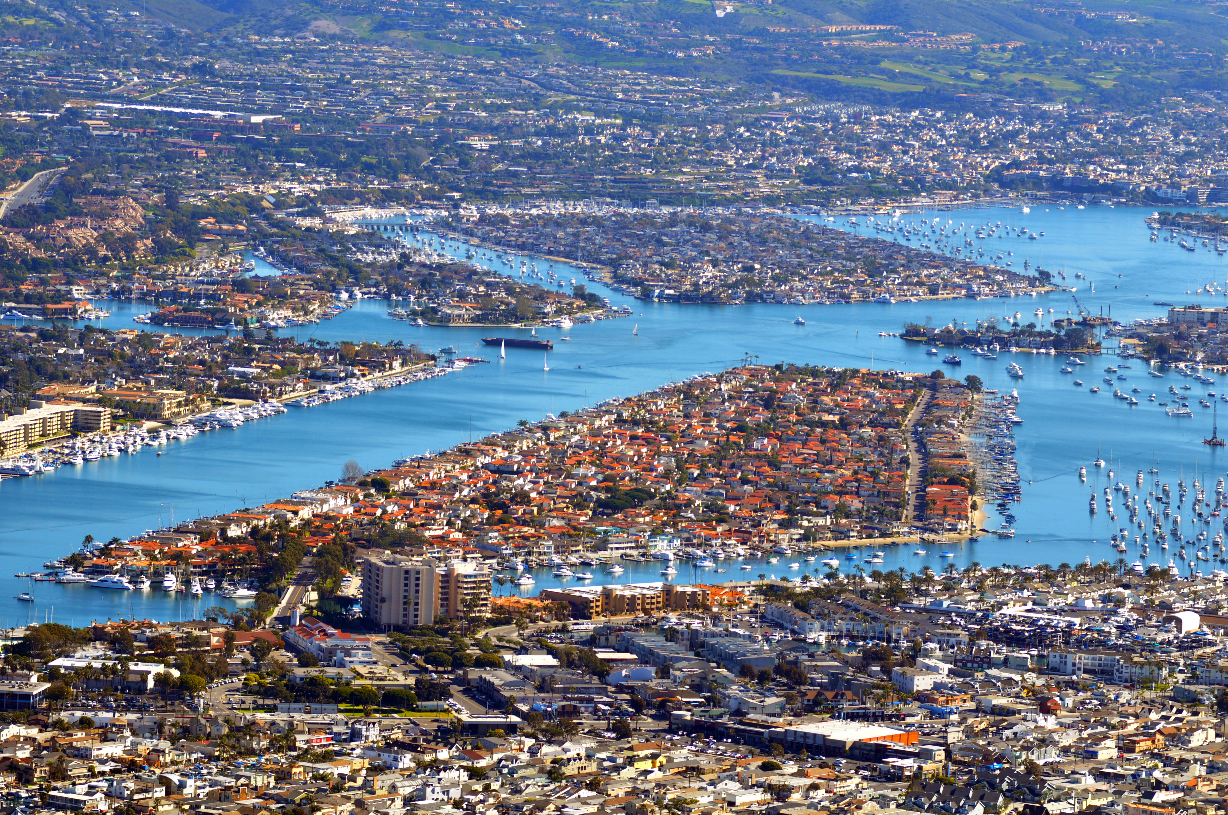 Lido isle Newport Beach California Photo: D Ramey Logan, publish photographer credit if used outside of Wikipedia